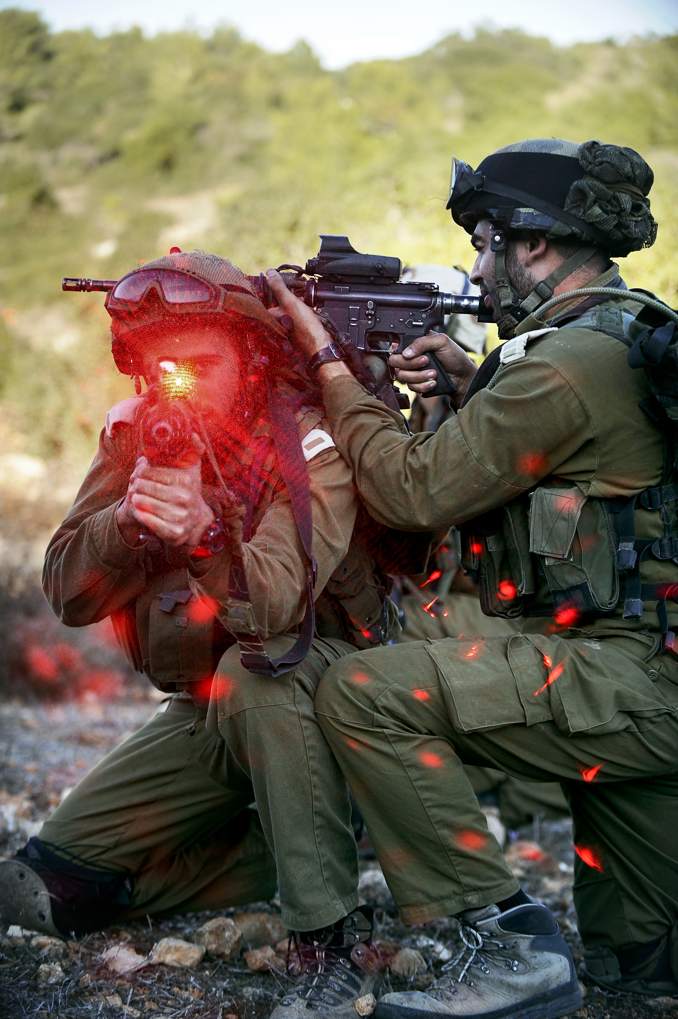 November 9, 2011 Soldiers of the Reconnaissance Battalion of the "Nachal" Brigade conducted a series of "commando" training exercises in northern Israel, which included training in an entangled environment. Every Infantry brigade has its Reconnaissance Battalion, composed of special companies trained especially for their specific tasks. Photo by Sgt. Ori Shifrin, IDF Spokesperson Unit. Click here to read about the first Gar'in Program Ethiopian officer of the Nachal Brigade. Featured as Photo of the Day on November 20, 2011 The Israel Defense Forces Facebook page The Israel Defense Forces blog Follow us on Twitter